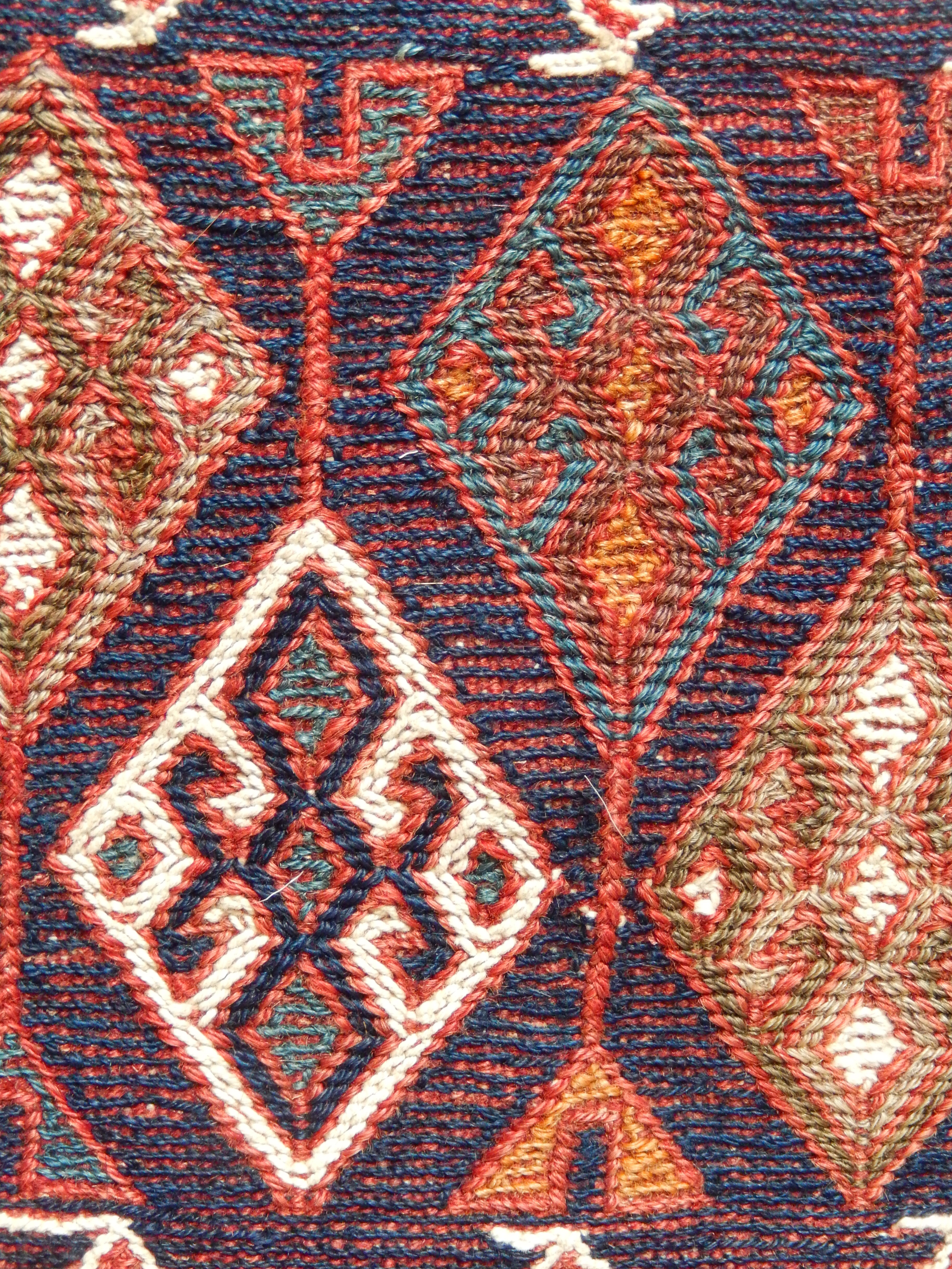 Detail of motif on front of Soumak saddle bag, Luristan, Iran. End of 20th century